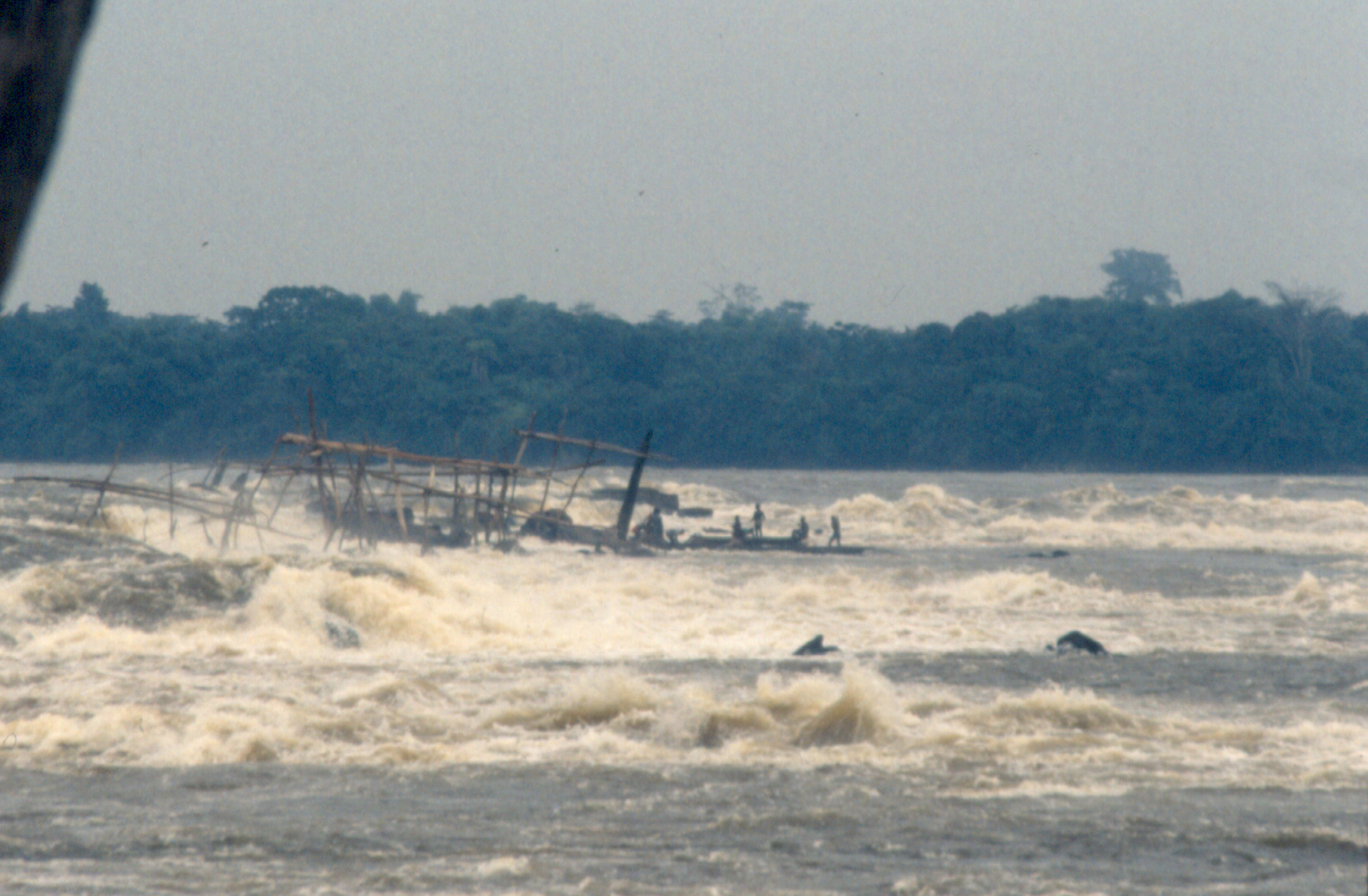 The Boyoma Falls rapids/cataracts of the Lualaba River — near Kisangani, in the Democratic Republic of the Congo. The Wagenya peoples are indigenous fishermen who have developed a unique technique to fish in the river. They build a huge system of wooden tripods across the river. These tripods are anchored on the holes naturally carved in the rock by the water current. To these tripods are anchored large baskets, which are lowered in the rapids to “sieve” the waters for fish. It is a very selective fishing method, as these baskets are quite big and only large fish are entrapped.